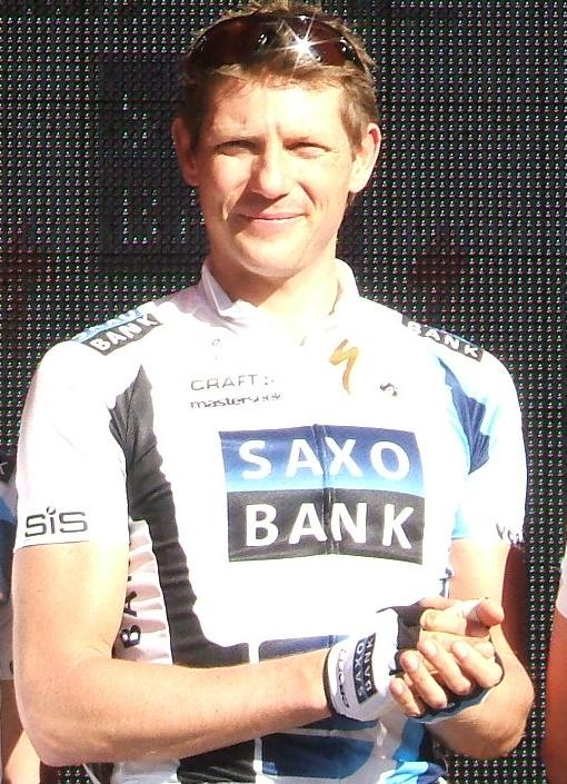 Named cyclist at the en:2009 Tour Down Under team presentation